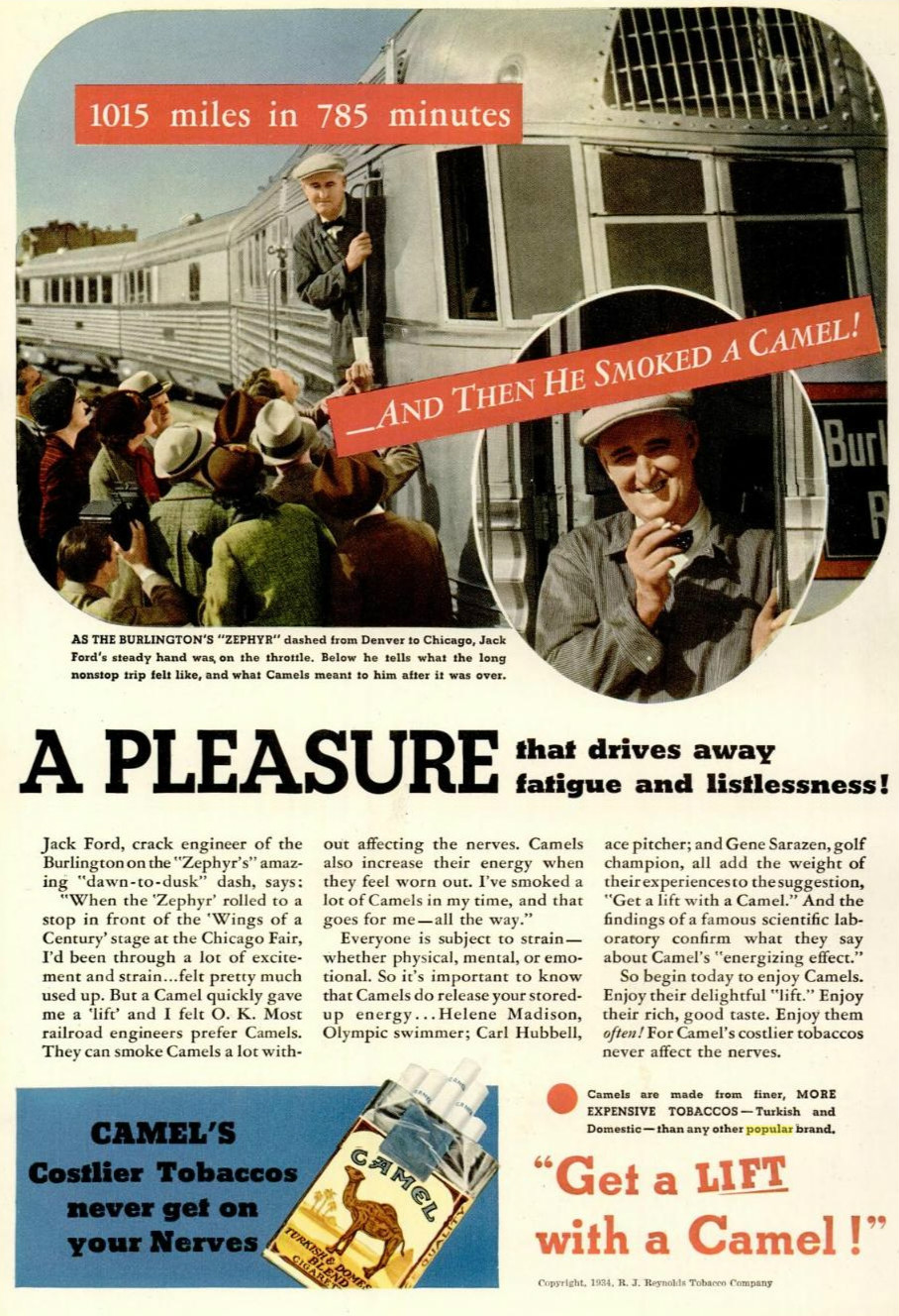 Ad for Camel cigarettes with Jack Ford, the engineer of the Burlington Pioneer Zephyr's record-breaking Denver to Chicago run and the Pioneer Zephyr. Ford is shown as the train arrived at the Burlington's Century of Progress exhibit in Chicago in 1934.